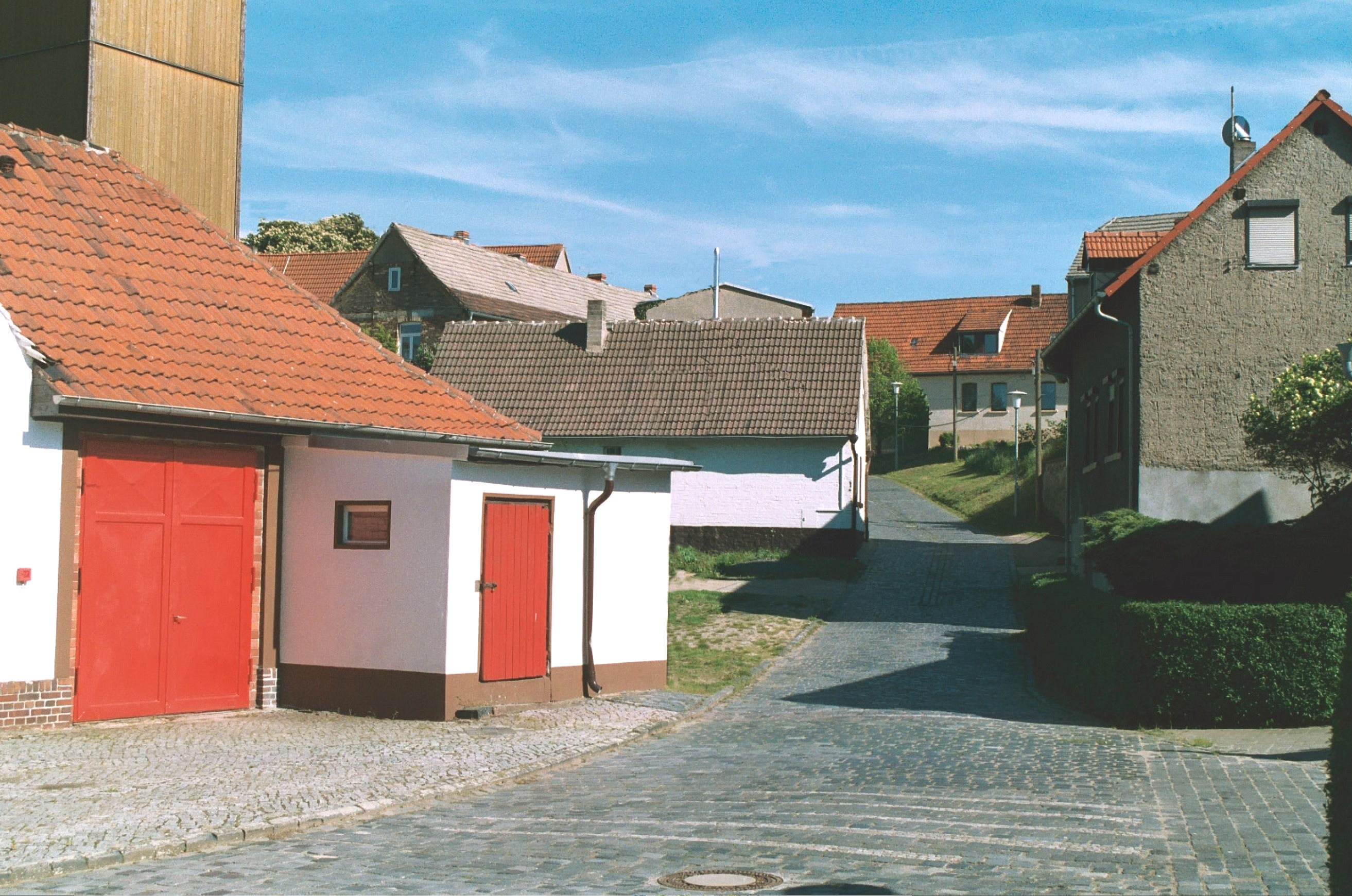 Hübitz (Gerbstedt), the Schulstraße